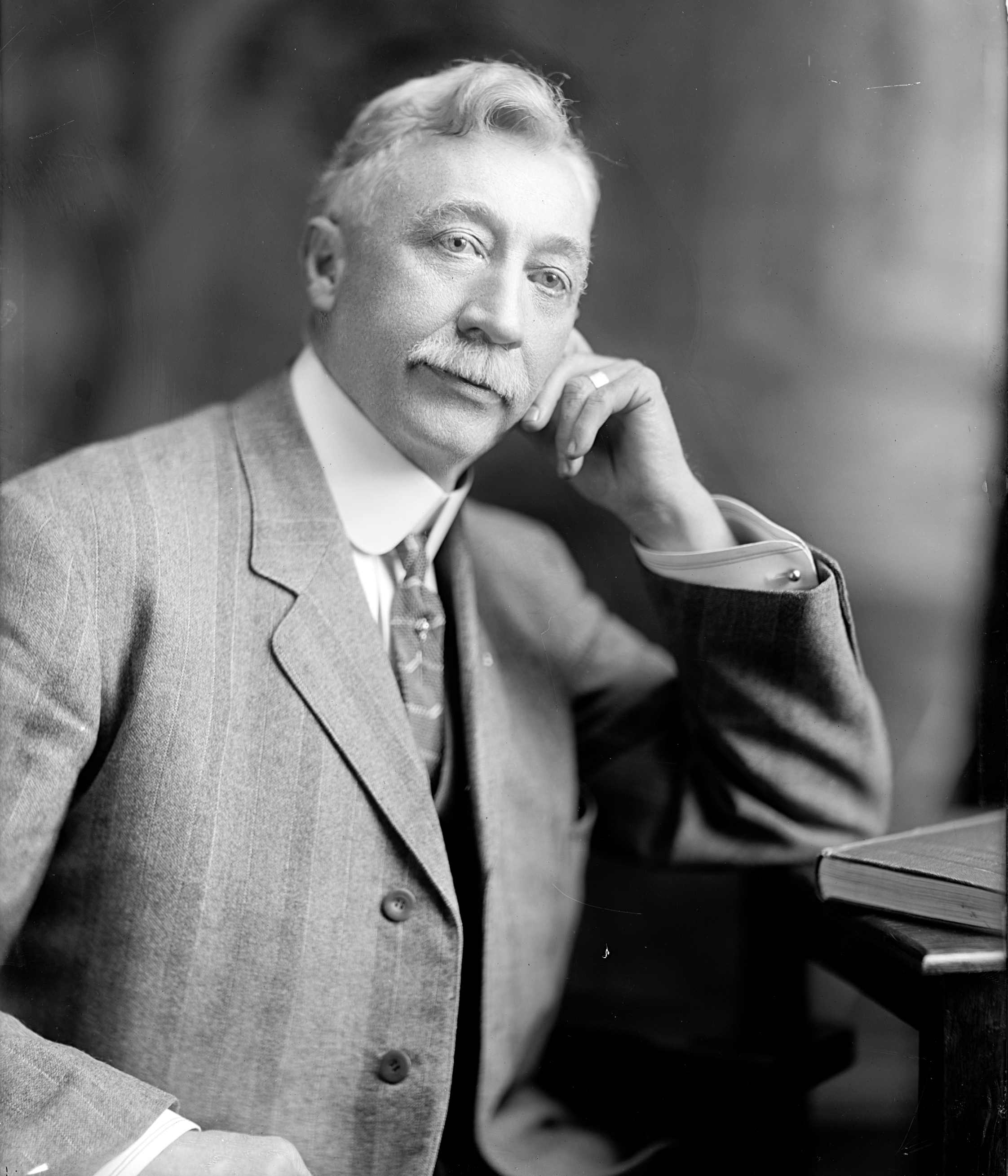 Charles Matthews, US Representative from Pennsylvania